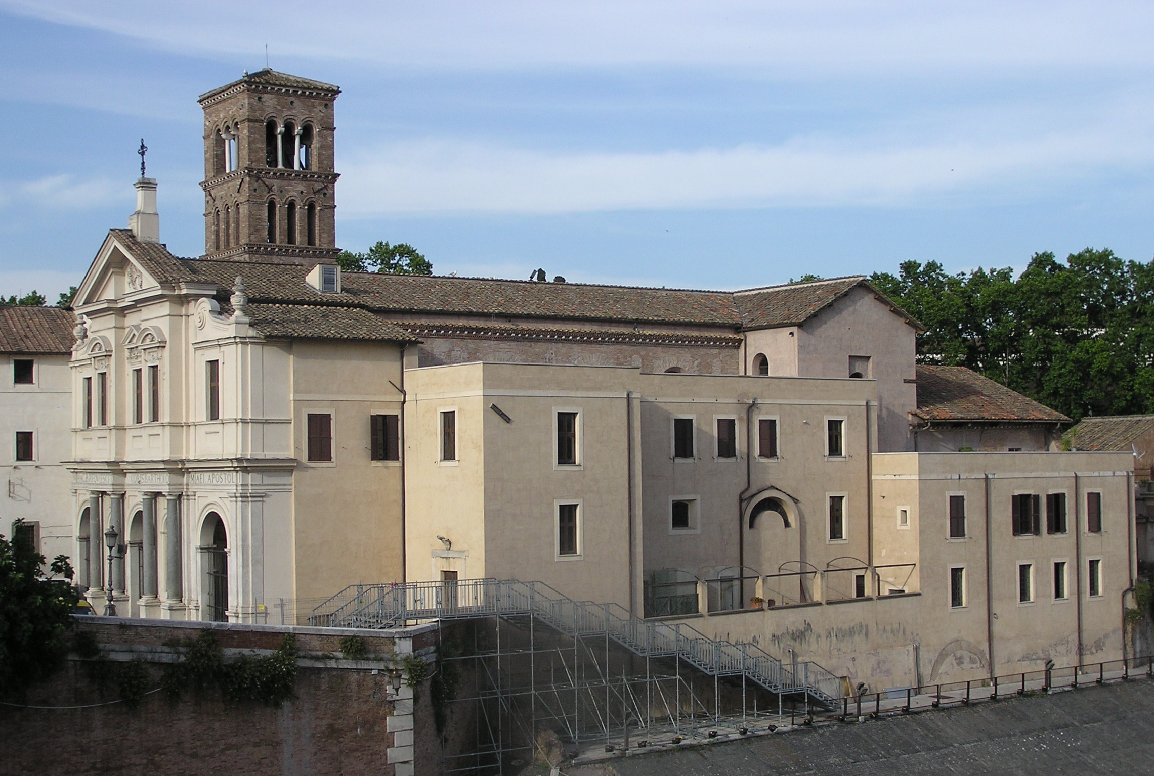 Basilica di San Bartolomeo all'Isola on Isola Tiberina (Tiber Island), Rome, Italy. Photographed by Adrian Pingstone in June 2007 and placed in the public domain.